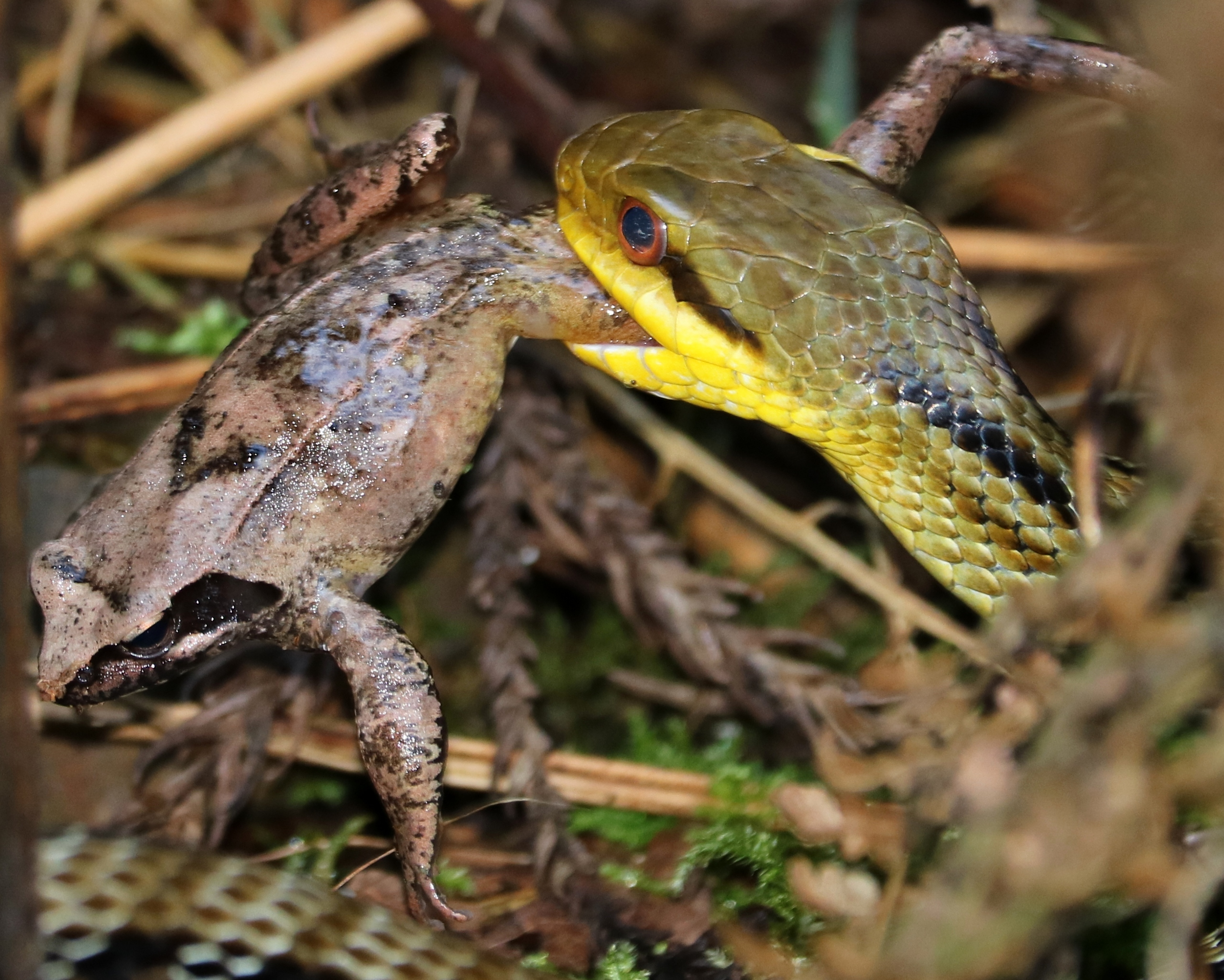 Elaphe quadrivirgata capturing Rana ornativentris in Mount Kiyotaki, Maibara, Shiga prefecture, Japan.